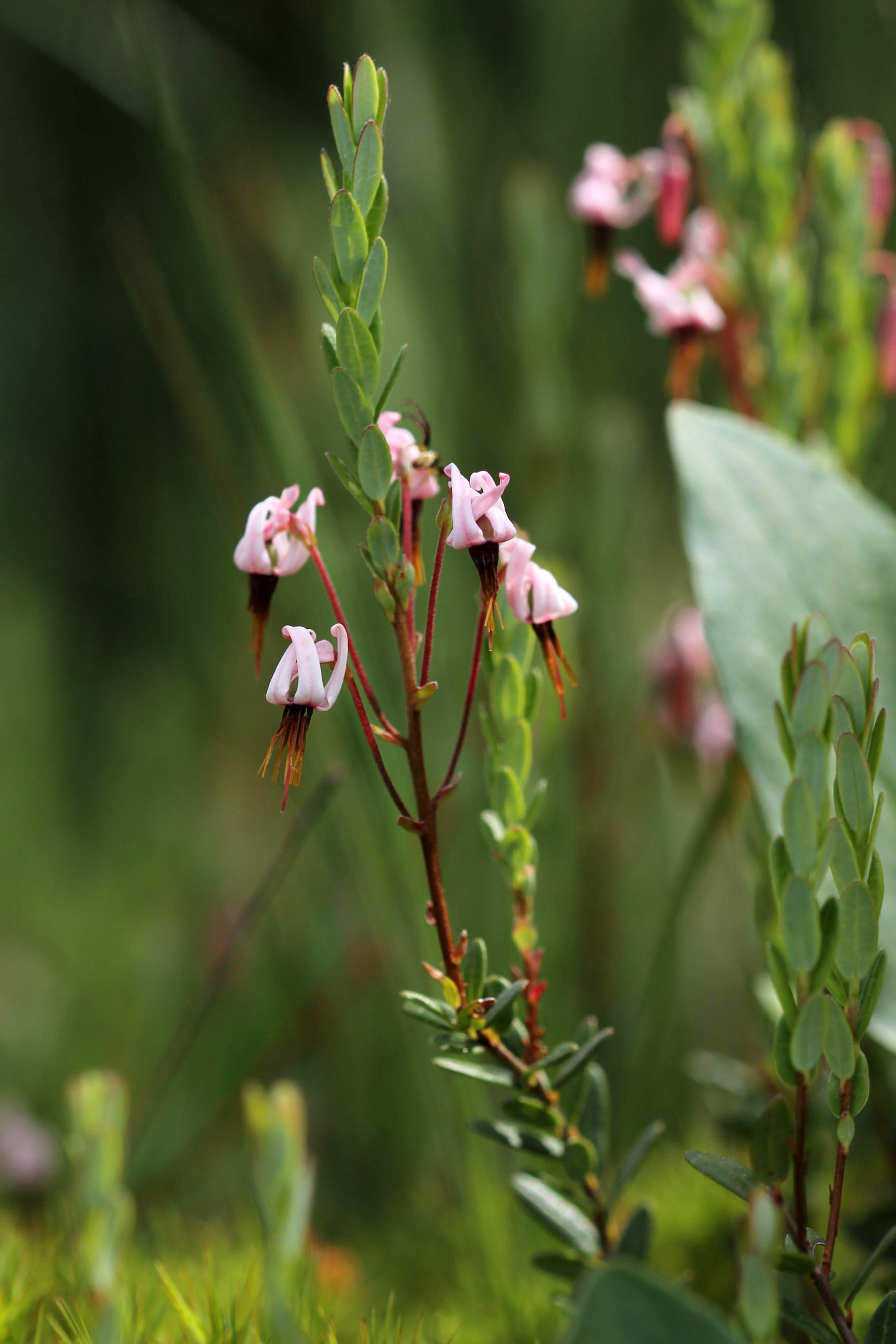 cranberry - Vaccinium macrocarpon Ait. - Descriptor: Flower(s) - Description: Vaccinium macrocarpon (early July, 2013) - Image type: Field - Image location: Dennis Twp (Sect. 36), Sault Ste. Marie, Ontario, Canada